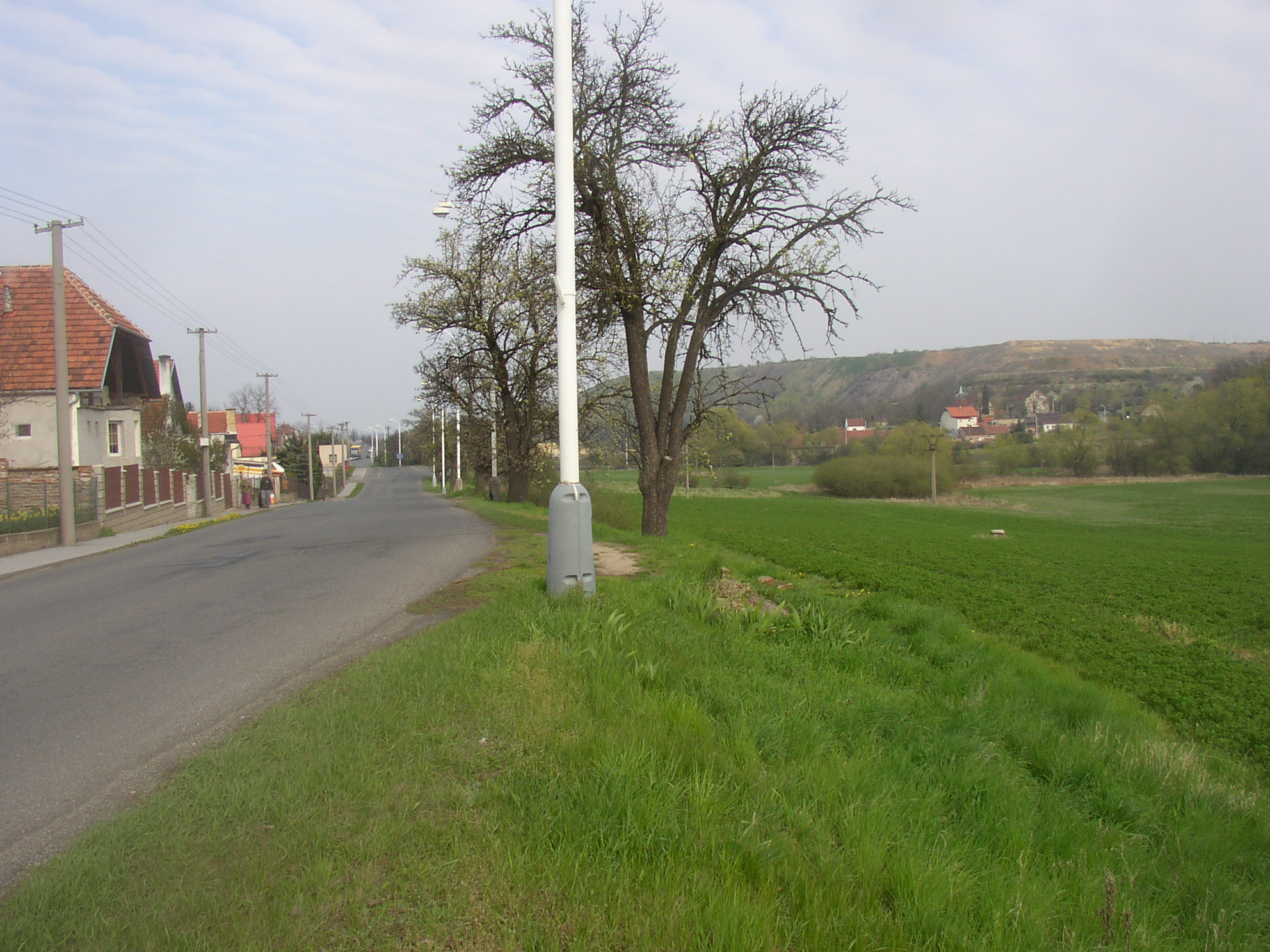 Vrapice, a suburb of Kladno city, Czech Republic. A view along Vrapická street towards east with Buštěhrad slag heap on the right horizon.